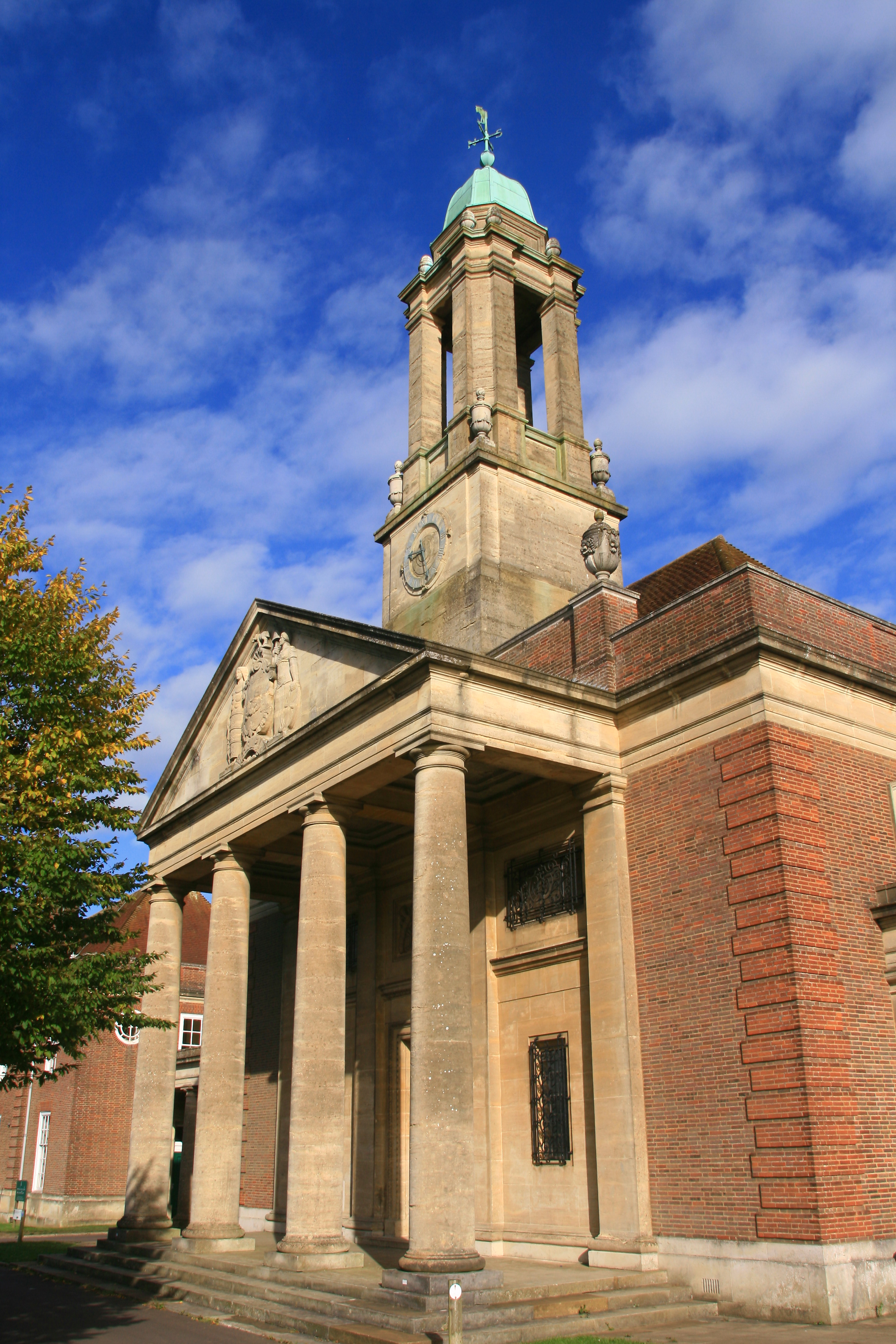 Ashlyns School Building Including The Chapel, Main Block And Classroom Wings Wikidata has entry Q26670119 with data related to this item.